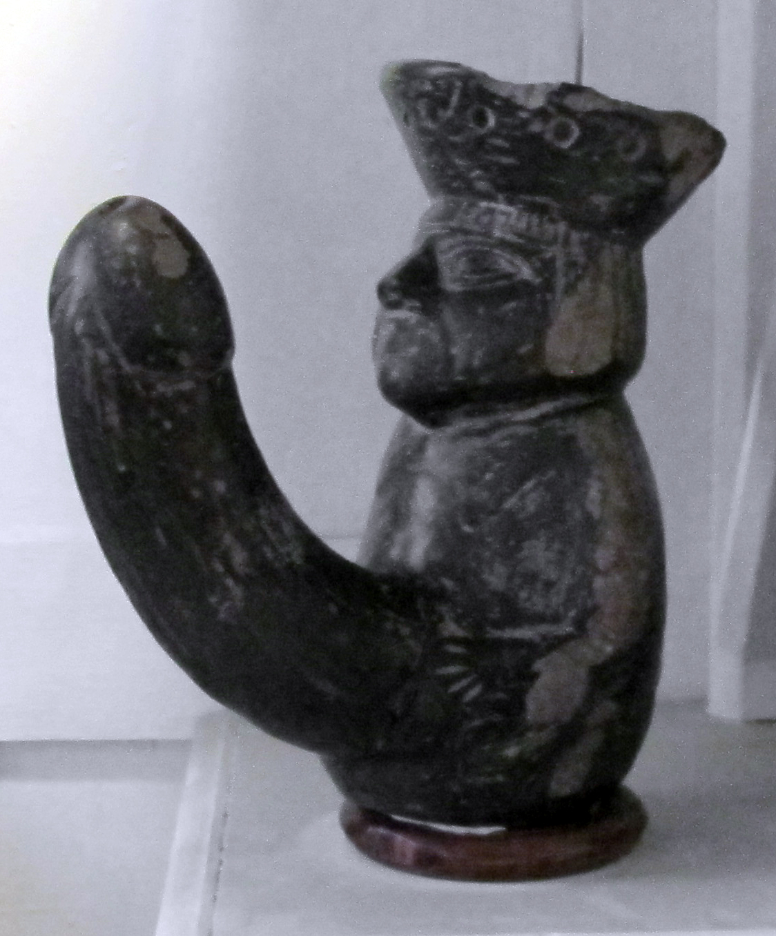 Museo di storia naturale (Florence) - Anthropology and Ethnography section - Peru